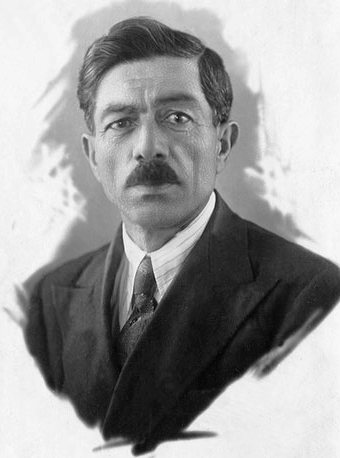 Aliaga Vahid